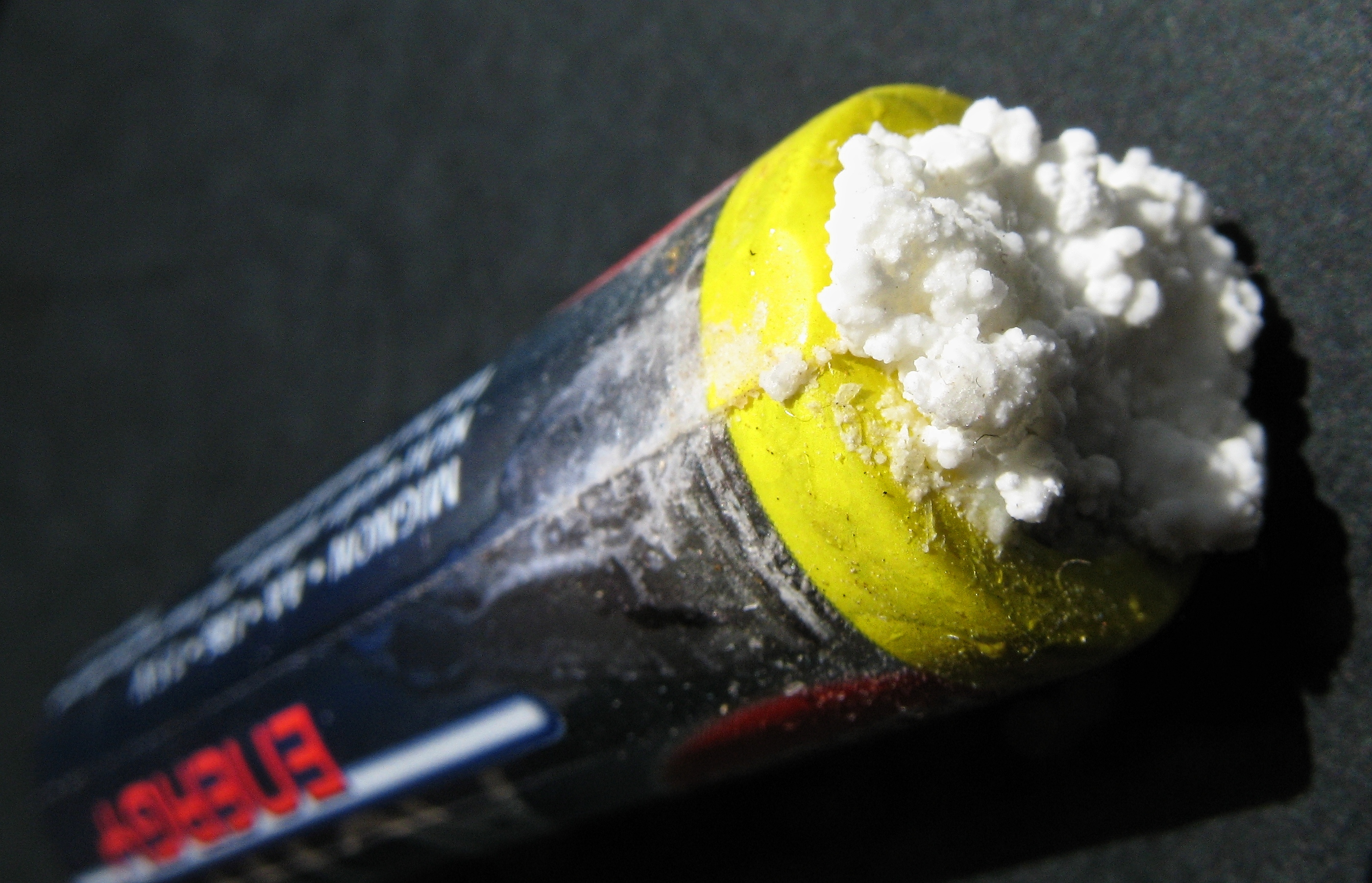 Crystallised electrolyte of a leaked alkaline cell